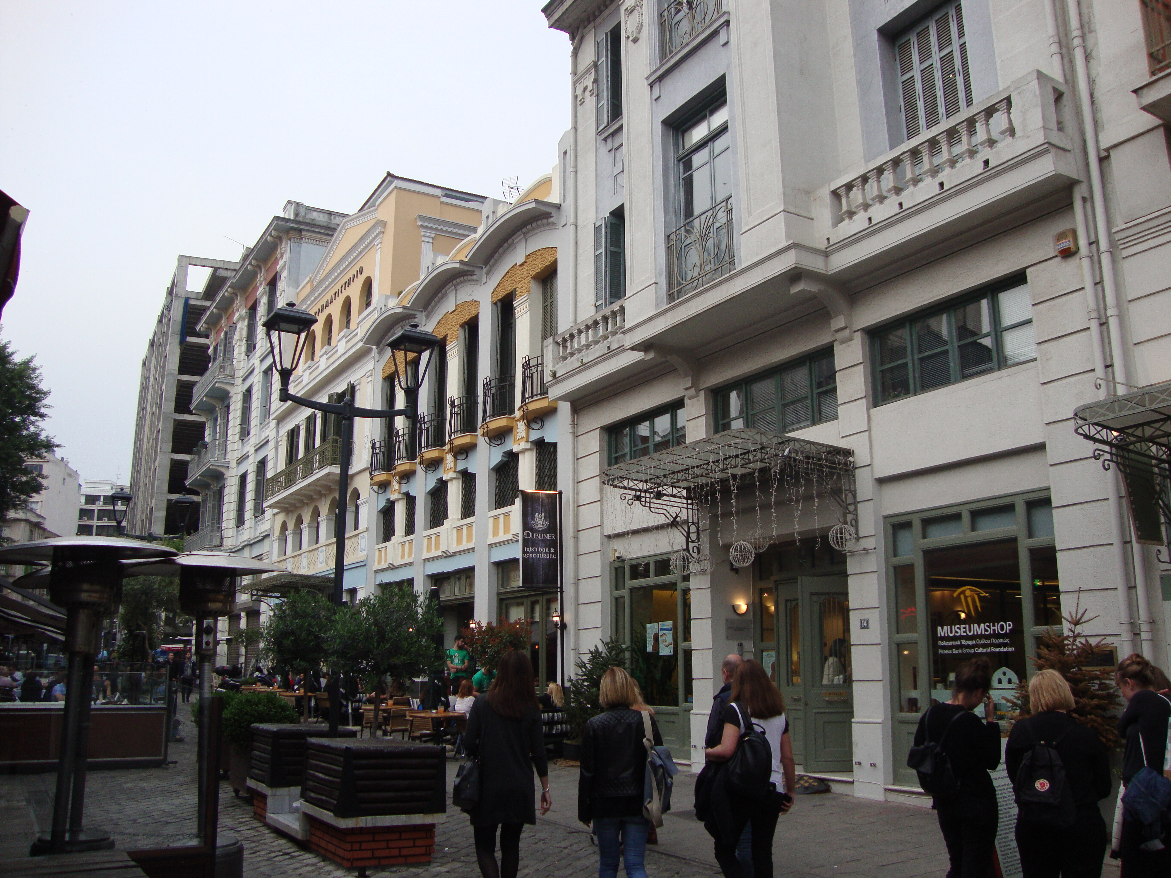 Thessalonikki, Macedonia, Greece